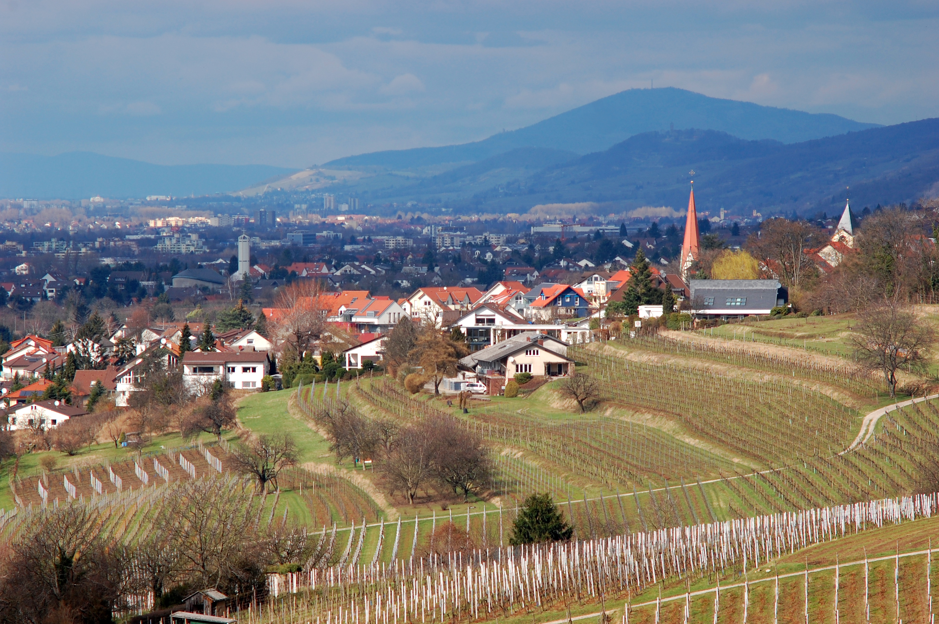 View from Schriesheim, Germany over the "Bergstrasse" north. In the foreground the village of Leutershausen. In the background the Melibokus mountain